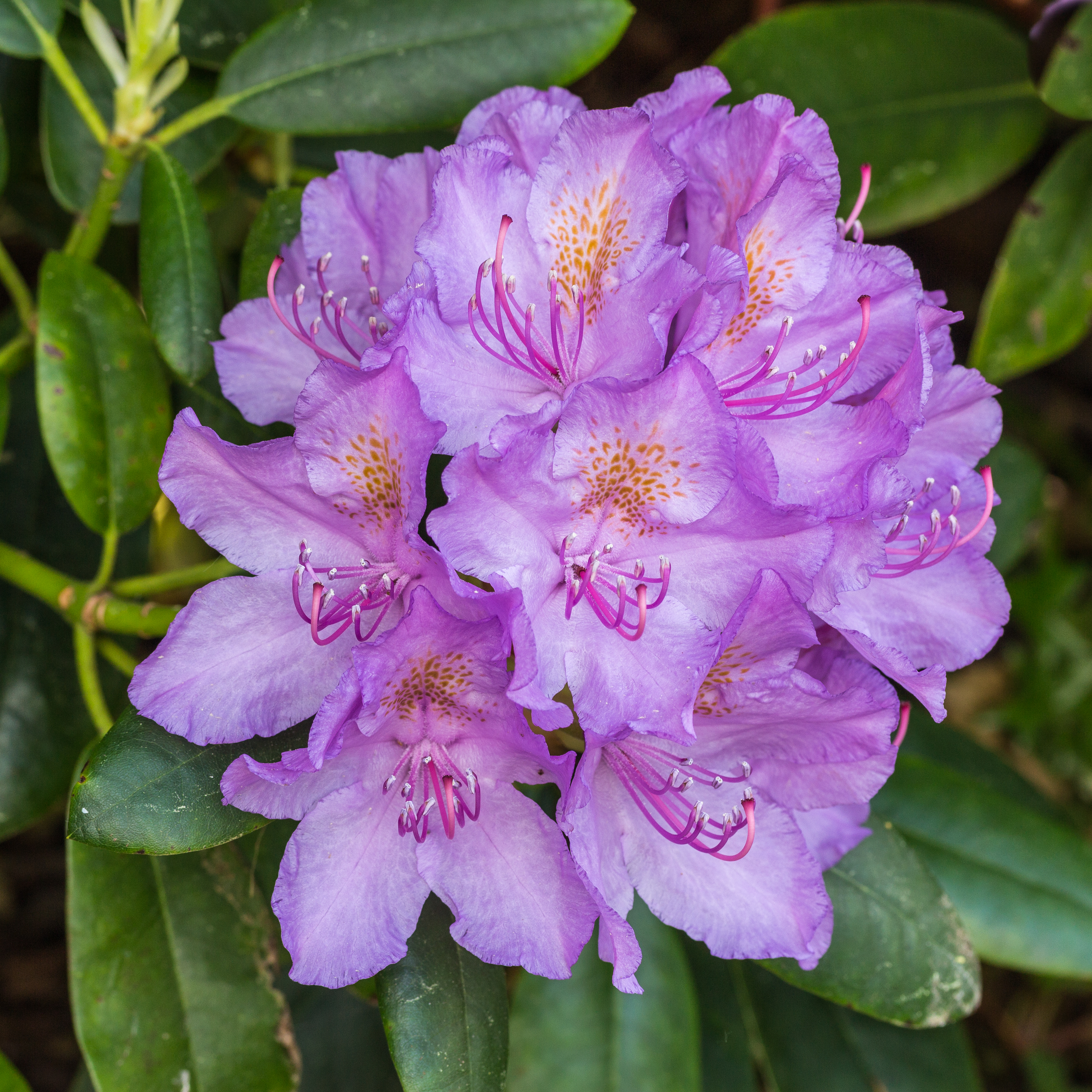 Rhododendron ponticum. Inflorescence.